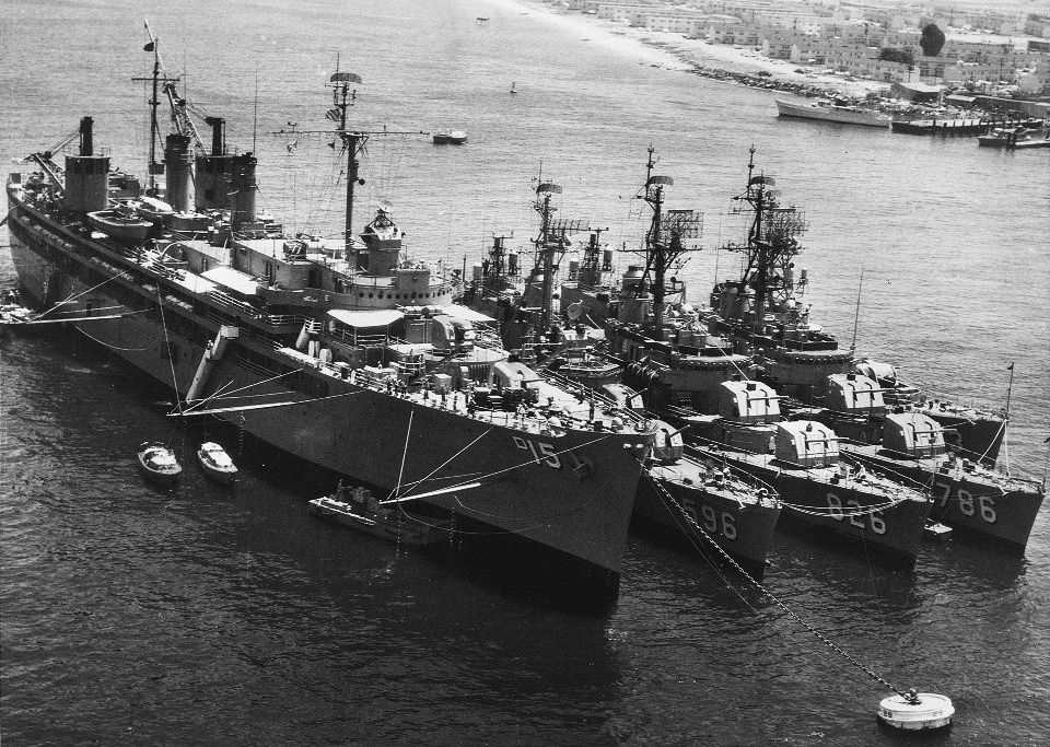 The U.S. Navy destroyer tender USS Prairie (AD-15) with destroyers at San Diego, California (USA), in August 1962. The ships alongside are USS Shields (DD-596), USS Agerholm (DD-826), USS Richard B. Anderson (DD-786), and USS Evans (DE-1023).